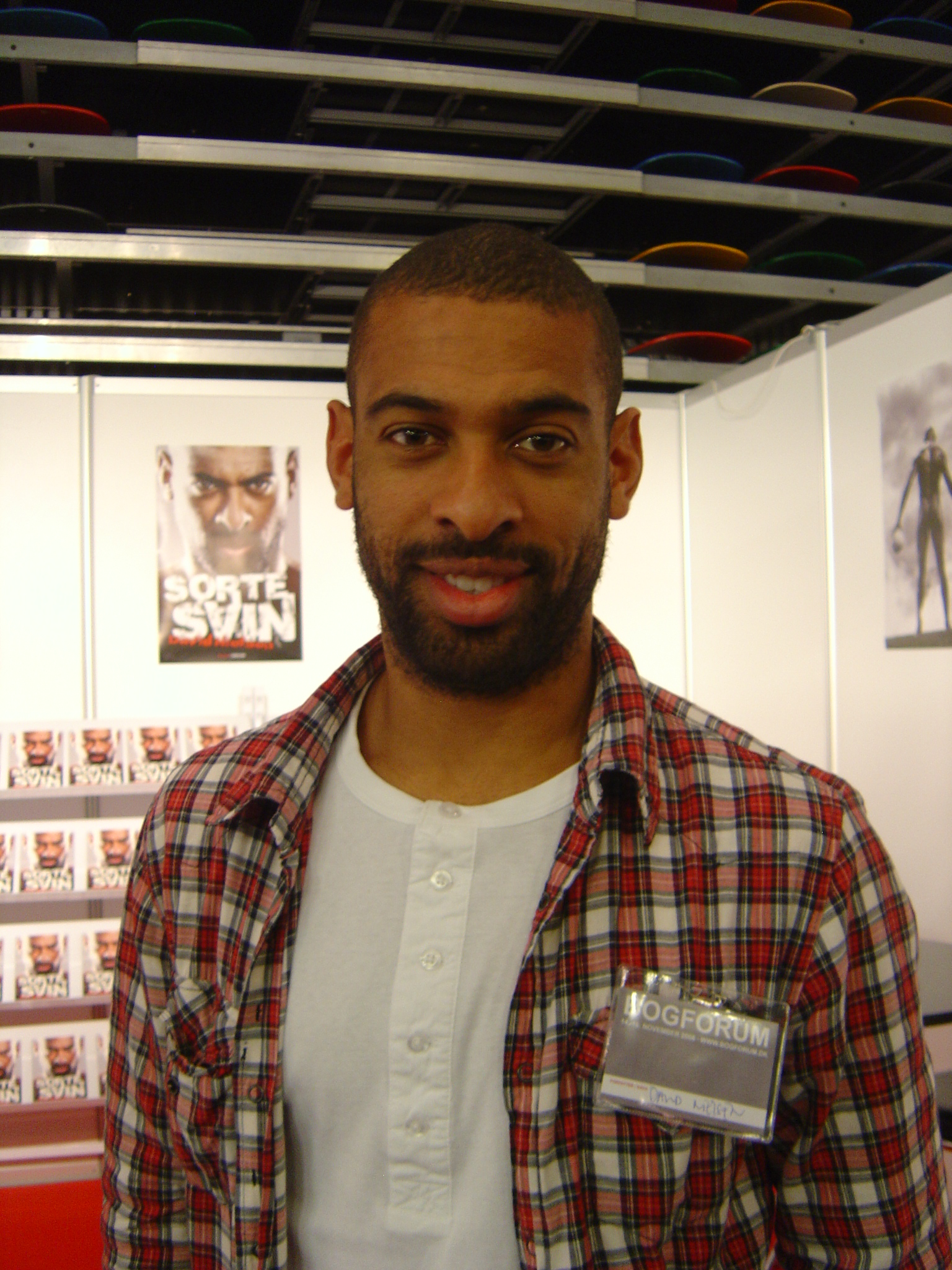 David Nielsen - a Danish football player promoting his autobiography called Sorte Svin on 14 November 2008 at the yearly Danish book fair, Bogforum (November 14-16, 2008), in Forum Copenhagen.